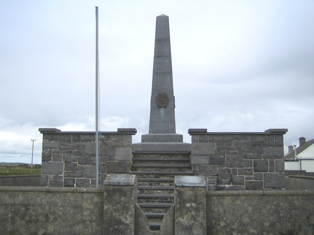 Banna Strand: Sir Roger Casement Memorial Plaques on the sides of the memorial read in both English and Irish: At a spot on Banna Strand adjacent to here Roger Casement - Humanitarian & Irish Revolutionary Leader - Robert Monteith & a third man came ashore from a German submarine on Good- Friday morning 21st April 1916 in furthering the cause of Irish freedom There are also cast busts of Casement and Monteith on the sides. The Wikipedia link for Casement is here Roger_Casement